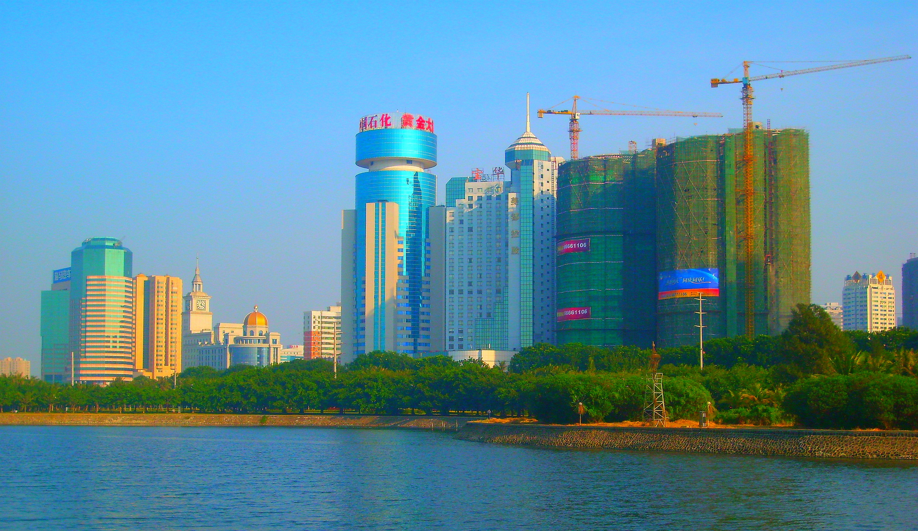 Haikou city, Hainan, China